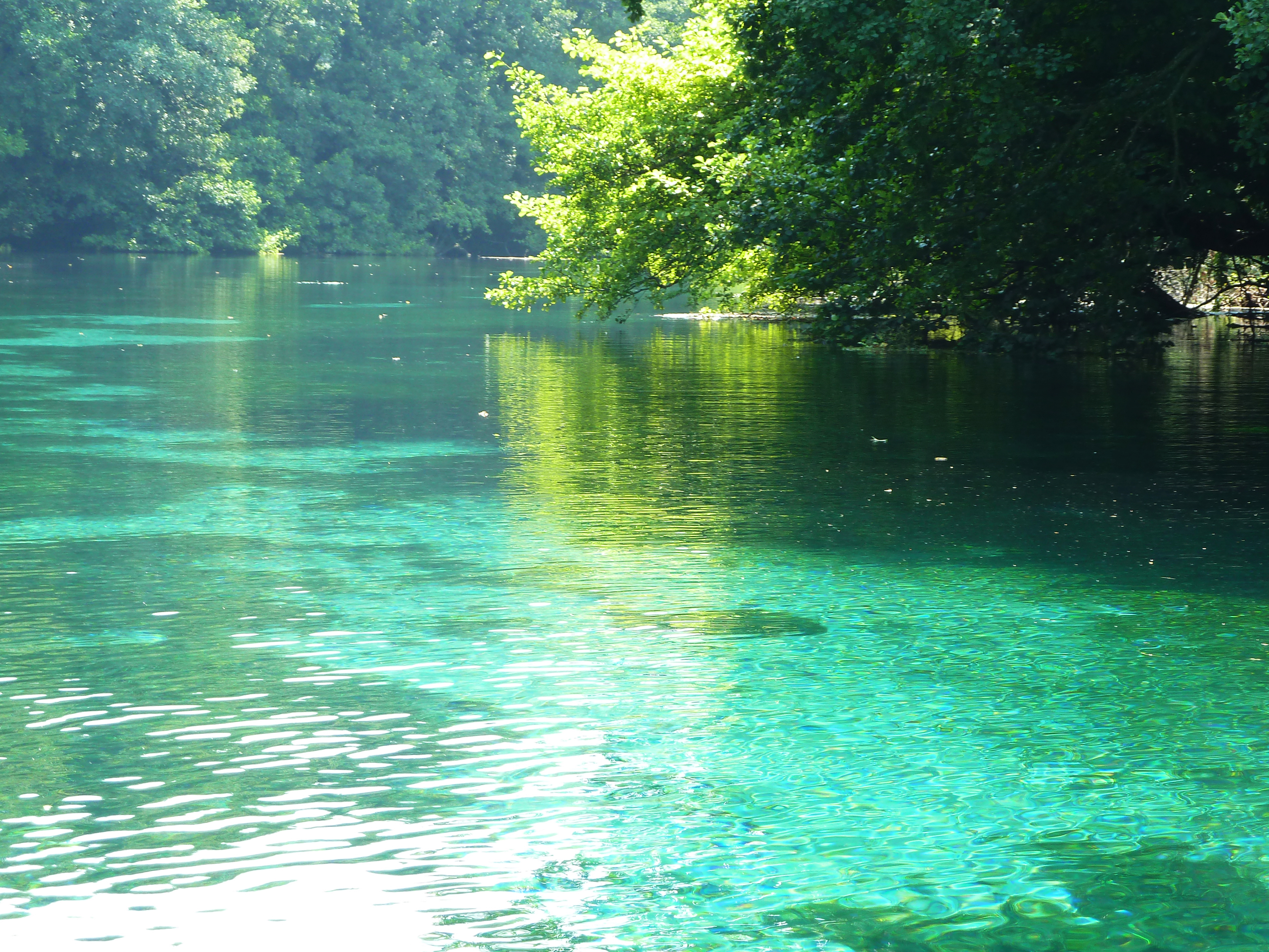 St. Naum springs, Macedonia